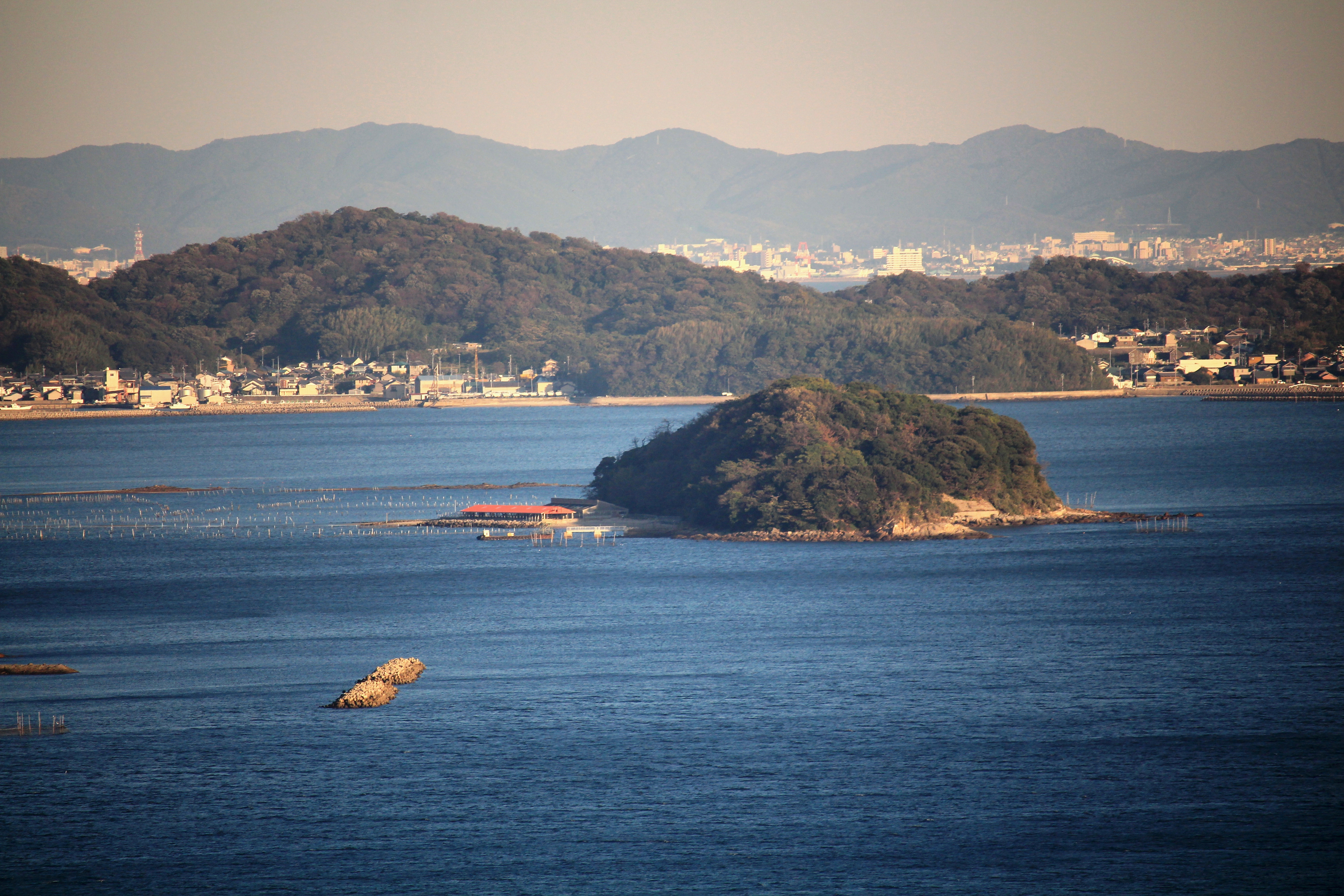 Mae Island in Nishio, Aichi prefecture, Japan.